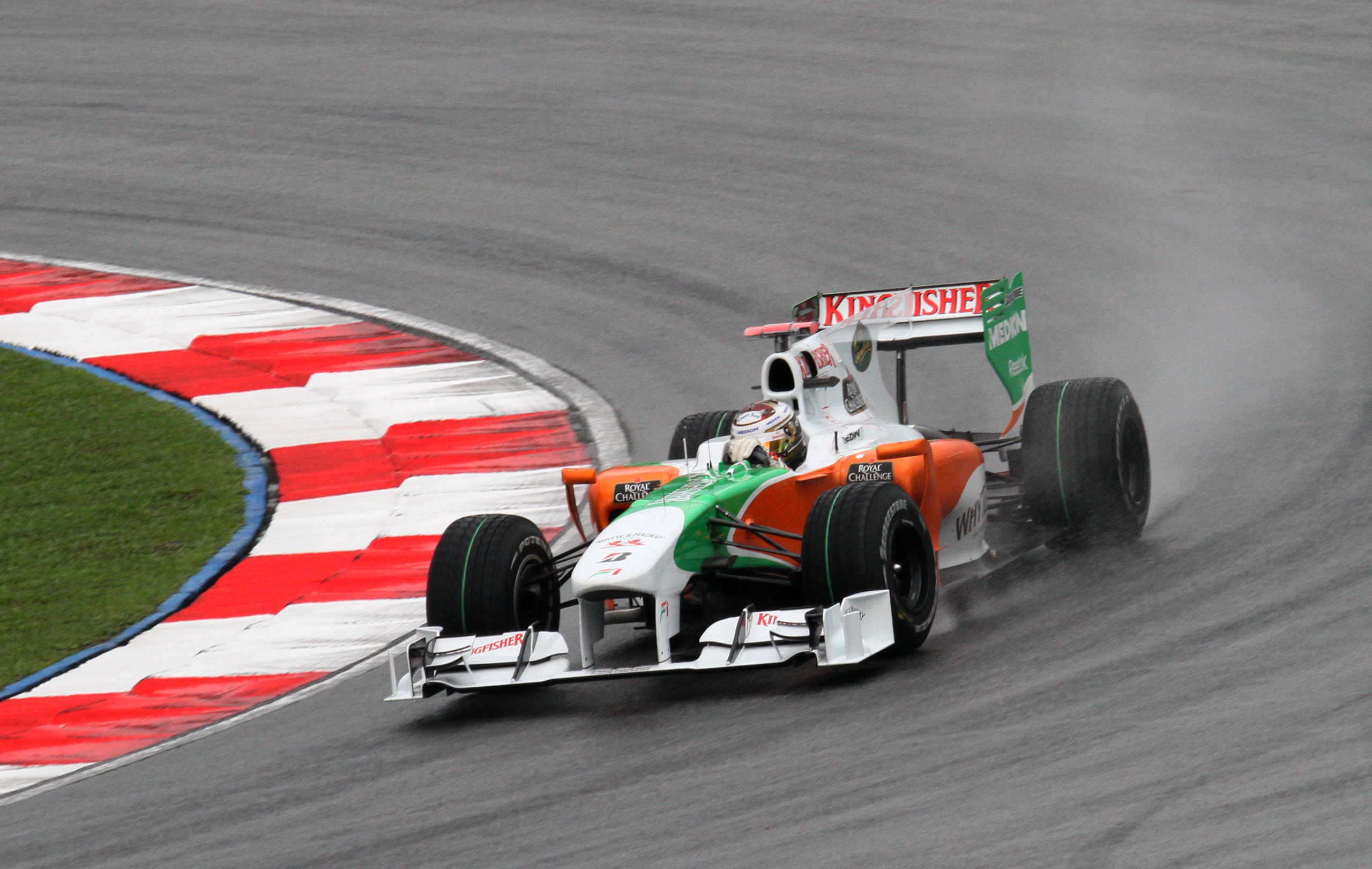 Formula One 2010 Rd.3 Malaysian GP: Adrian Sutil (Force India) in Saturday 3rd Qualify session.